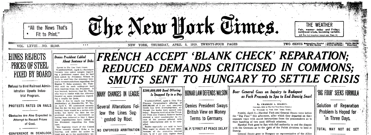 'BIG FOUR' SEEKS FORMULA